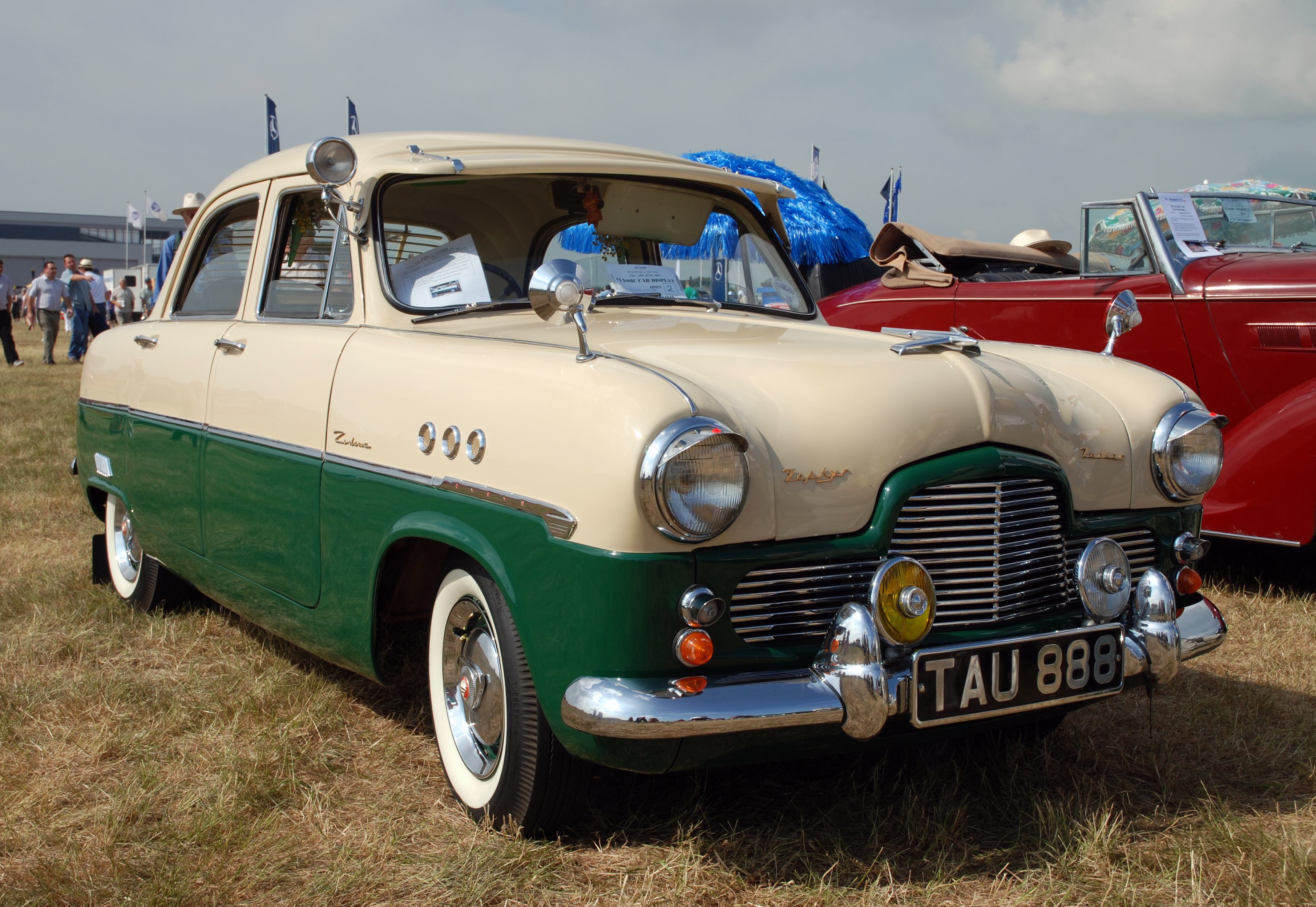 Biggin Hill Air Show,June 2009